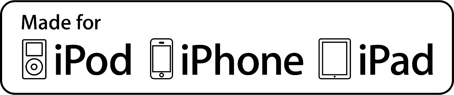 The "Made for iPod, iPhone, iPad" emblem appearing on accessories approved by Apple Inc. for iPod, iPhone, and iPad.